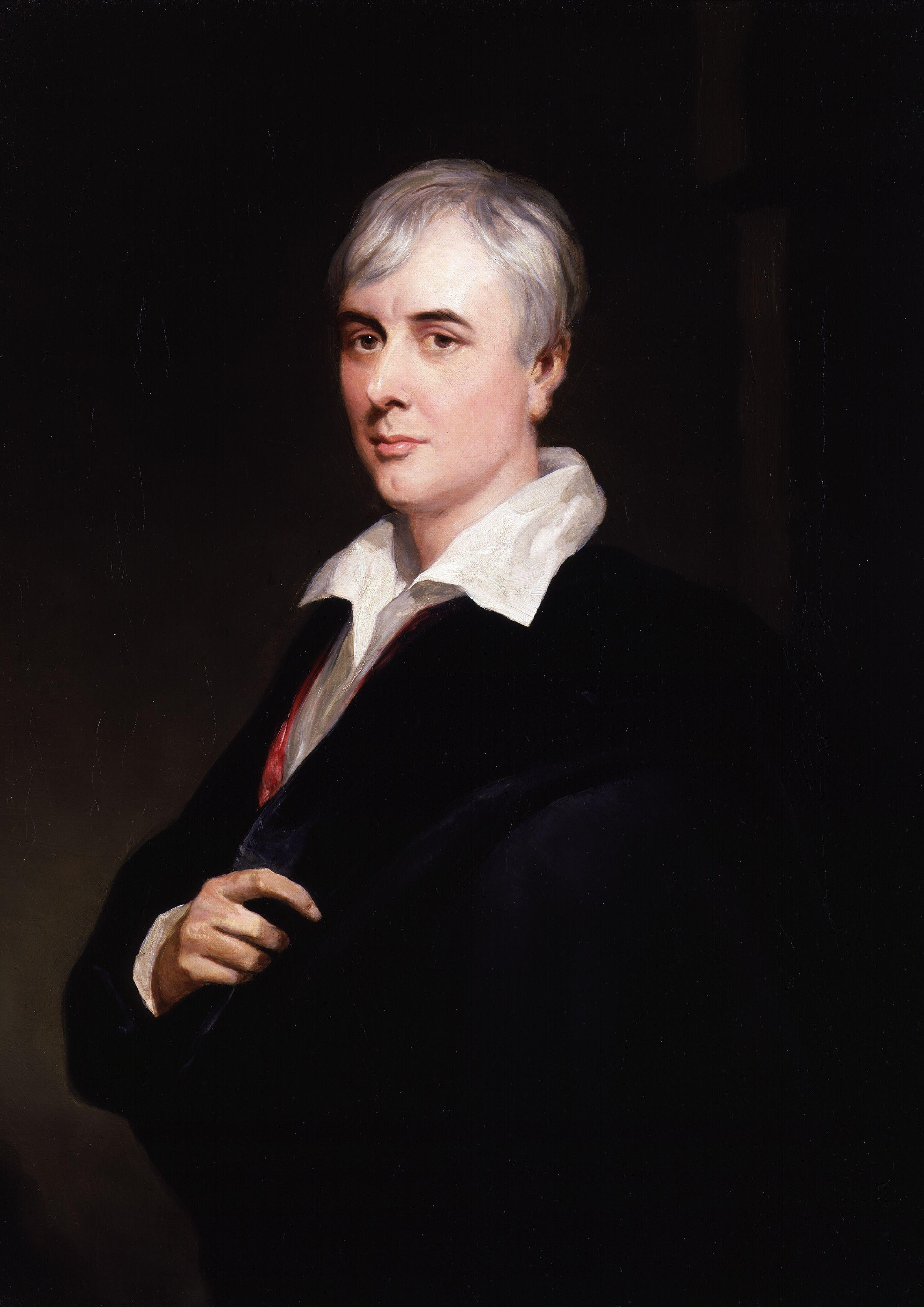 Portrait of George Borrow, by Henry Wyndham Phillips (died 1868), given to the National Portrait Gallery, London in 1919. All images in this batch have been confirmed as author died before 1939 according to the official death date listed by the NPG.